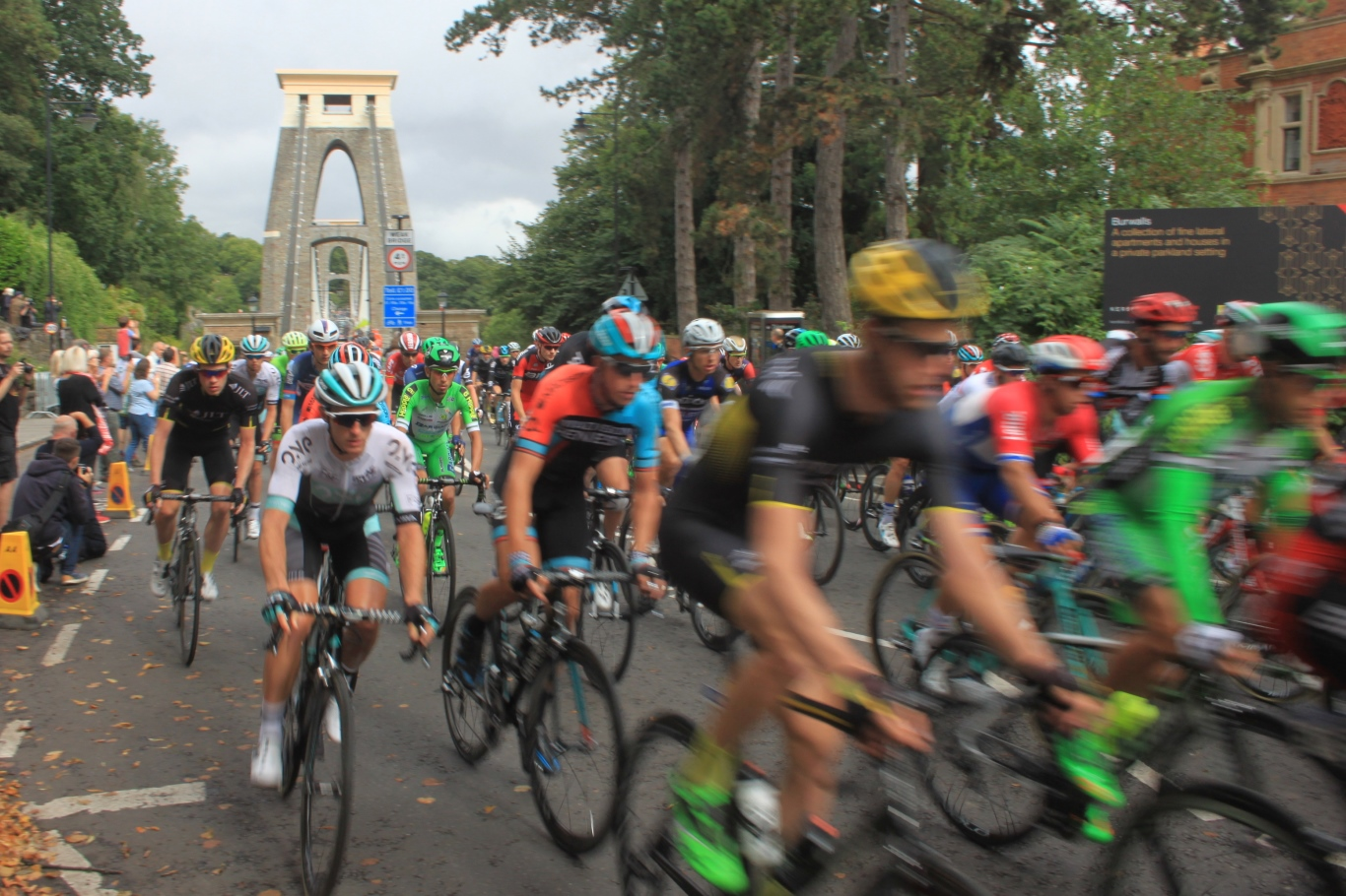 The 2016 Tour of Britain crosses Clifton Suspension Bridge on the first of six laps of Bristol.